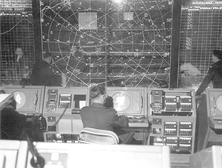 This image shows the interior of the AMES Type 80 control room operated by the Canadian 1st Air Division in Metz, France. In the midground are several of the Type 94 consoles, and in the background, the side-lit perspex plot board and tote boards showing known missions on the left and tracks on the right.